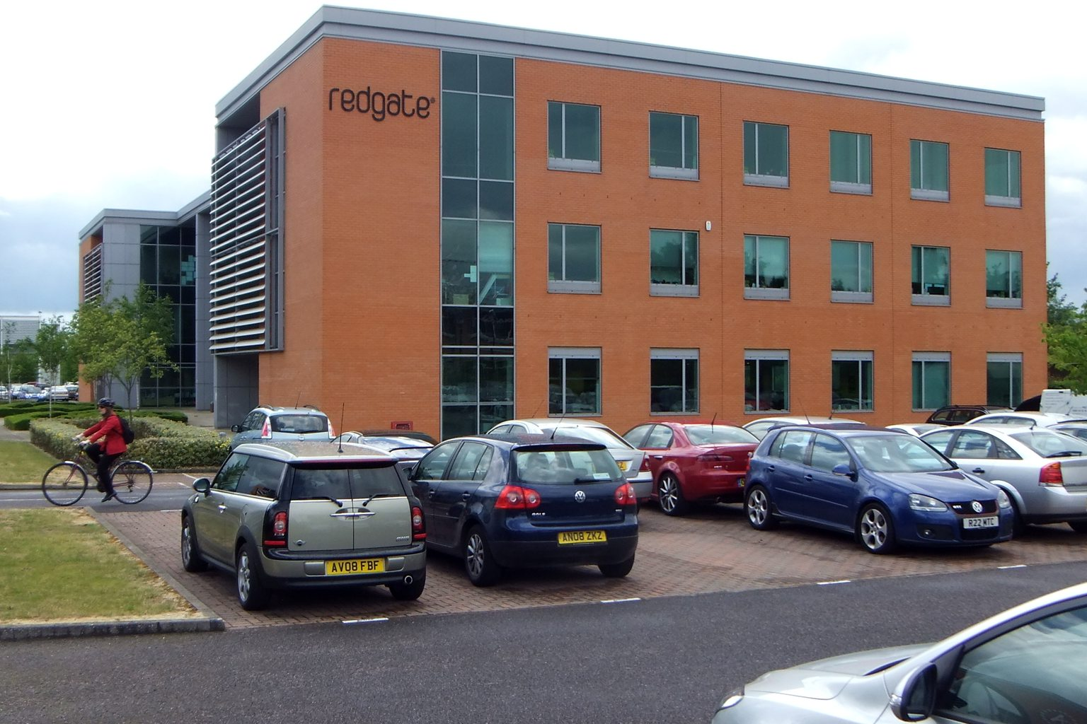 Redgate building at Cambridge Business Park.